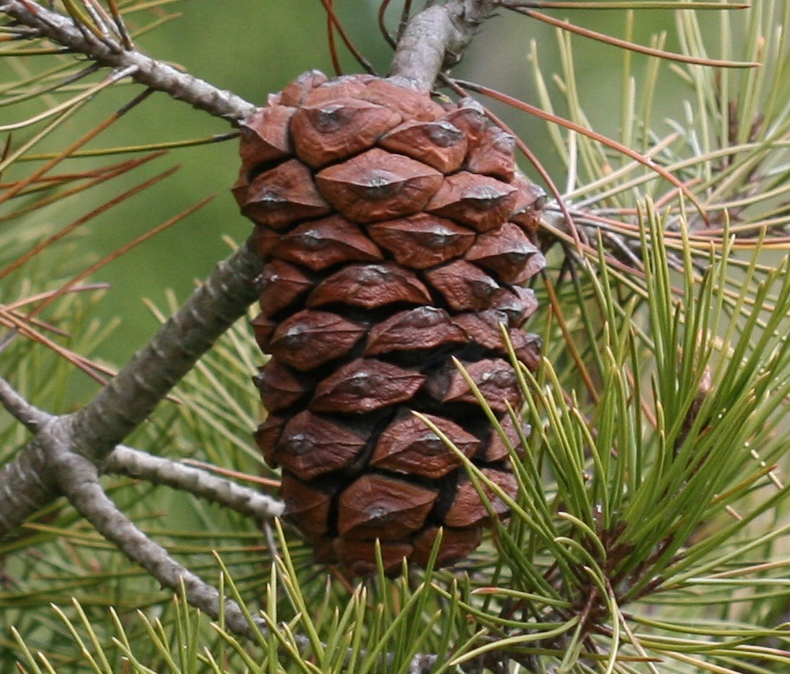 Royal Botanic Garden, Edinburgh, Scotland.